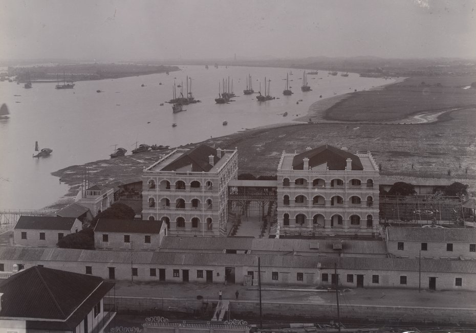 The Cement Factory(now Memorial Museum of the Generalissimo Sun Yat-sen's Mansion) in Canton, Kwangtung, China. Buildings designed by Purnell and Paget.